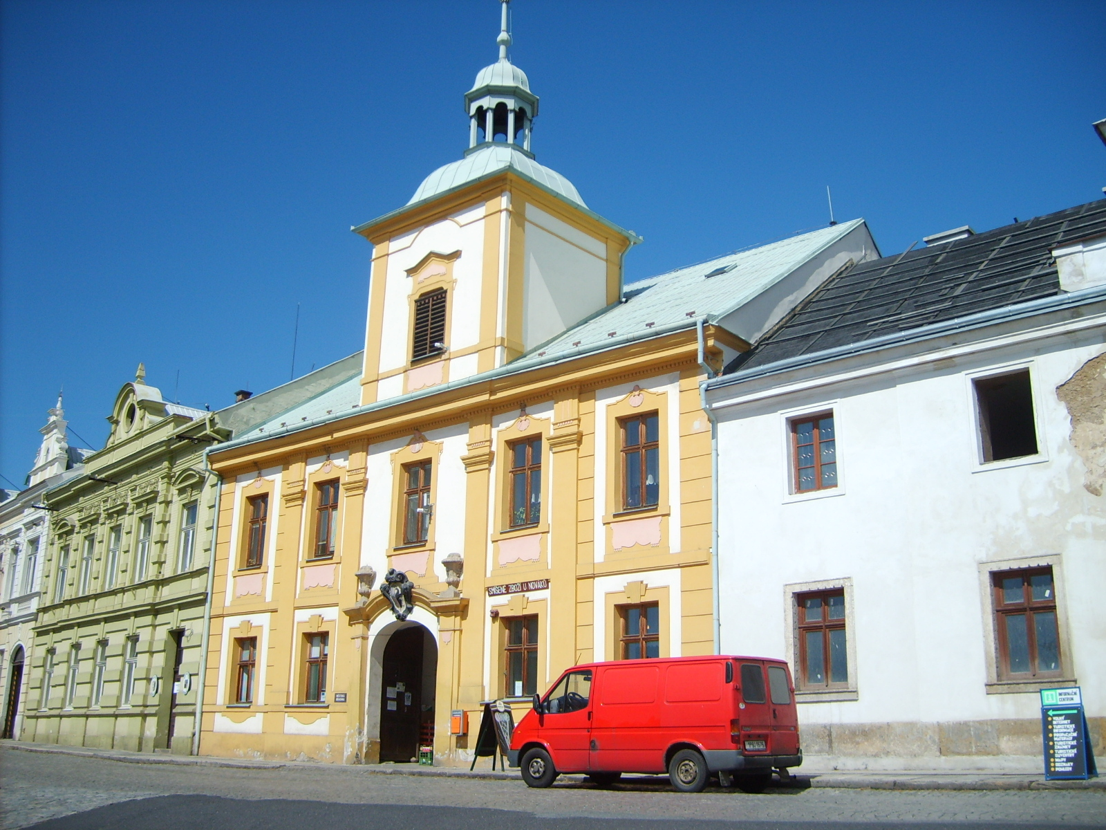 Former town hall in Manětín